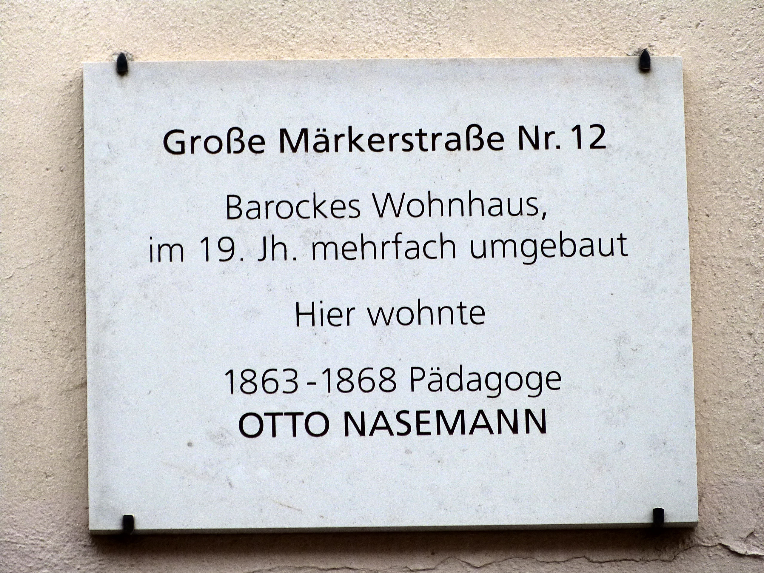 Plaque for Otto Nasemann on the house Grosse Maerkerstrasse No. 12, Halle (Saale)